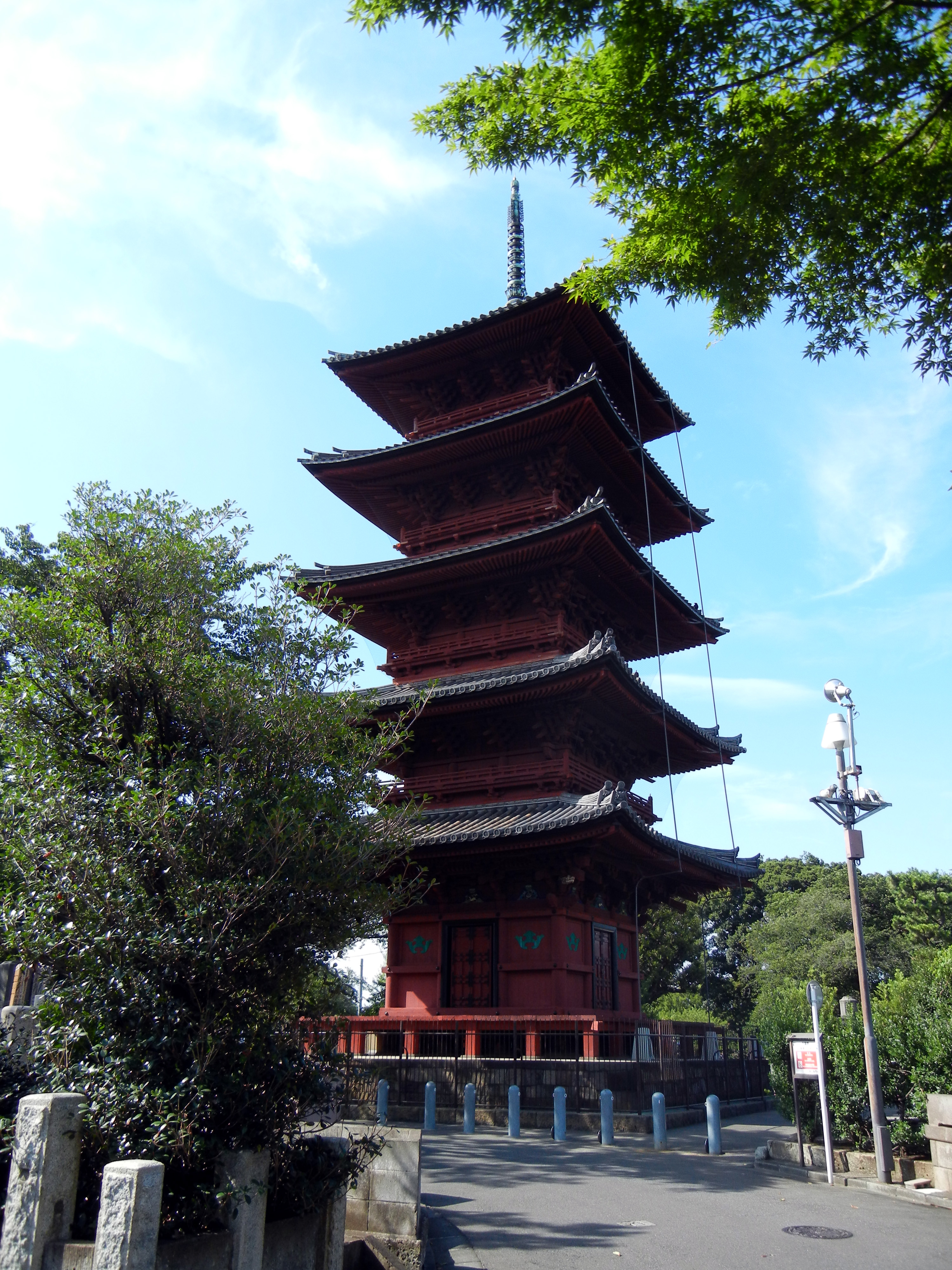 Five-storied Pagoda of Ikegami Honmon-ji Temple in Ota-ku, Tokyo.